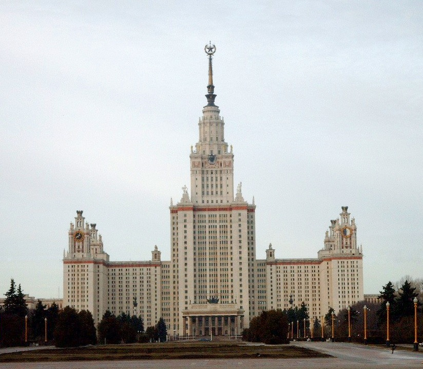 Main building of Moscow State University (Lomonosov University) in Moscow, Russia.